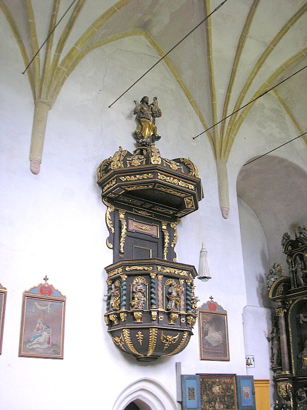 Oberwittelsbach, Subsidiary Church of the Blessed Virgin Mary. Baroque pulpit (ca. 1680).